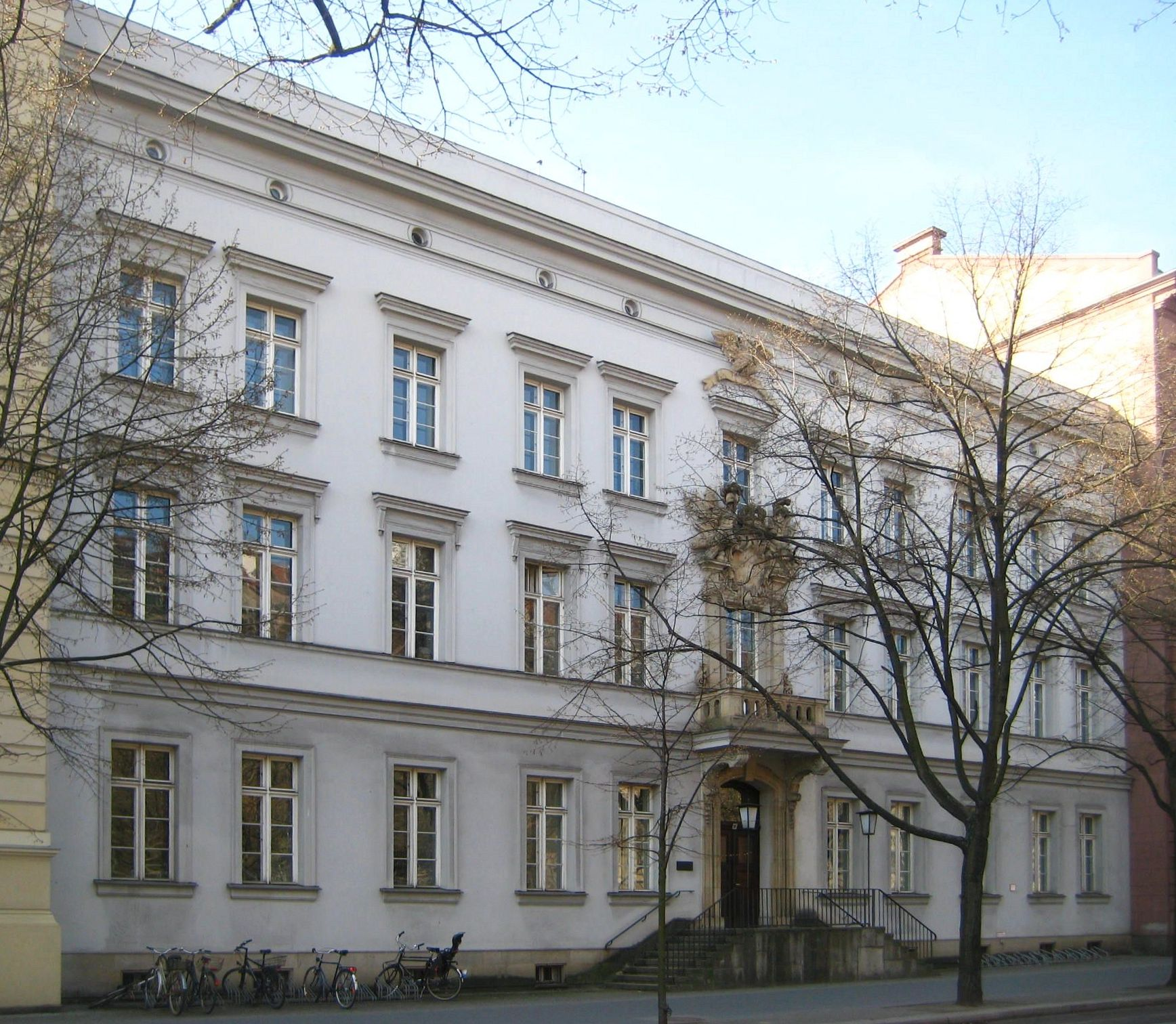 The Gouverneurshaus (Governor's House), Unter den Linden No. 11, in Berlin-Mitte. It was built in 1721 to a design by Friedrich Wilhelm Dietrichs und Martin Heinrich Böhme at Königsstraße No. 19 (now Rathausstraße). The house was demolished in 1960 and reconstructed (with alterations) from 1962 to 1964 at its present site; the design was by Fritz Meinhardt. The Gouverneurshaus is used by Humboldt University. It is part of the protected historic buildings area Unter den Linden.